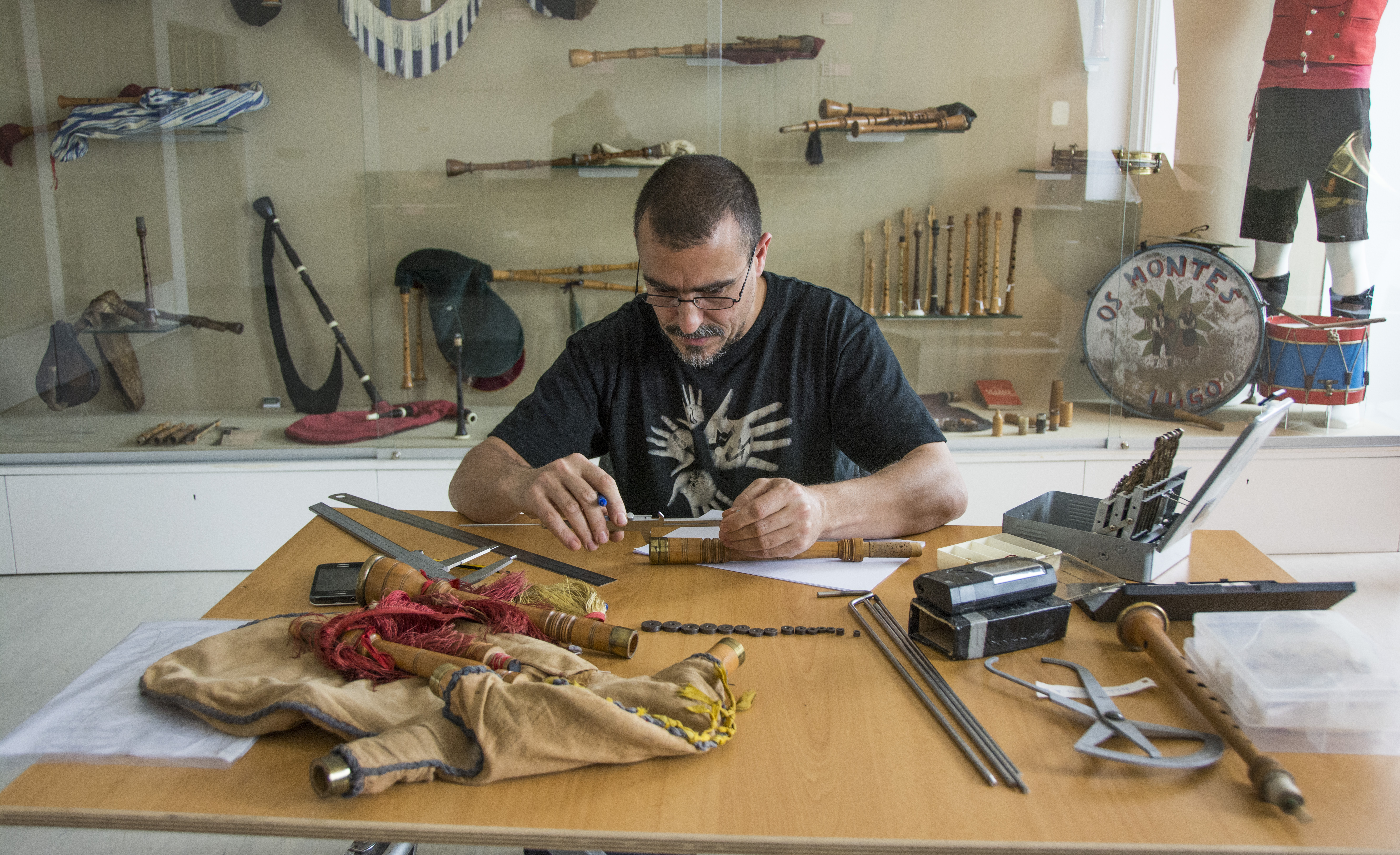 Pablo Carpintero measuring bagpipes in Lugo, Galicia (Spain). April 2014